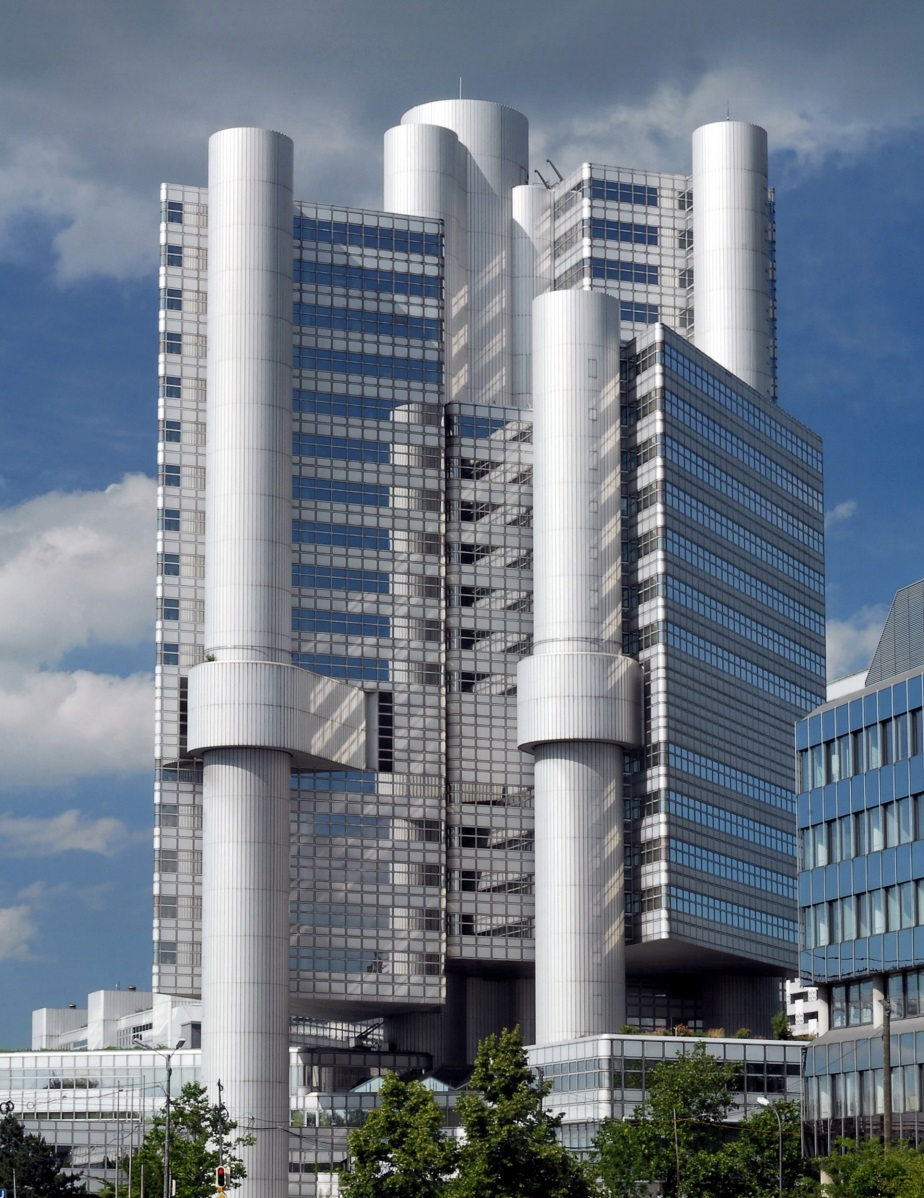 Munich,suburb Bogenhausen, Hypo-Building